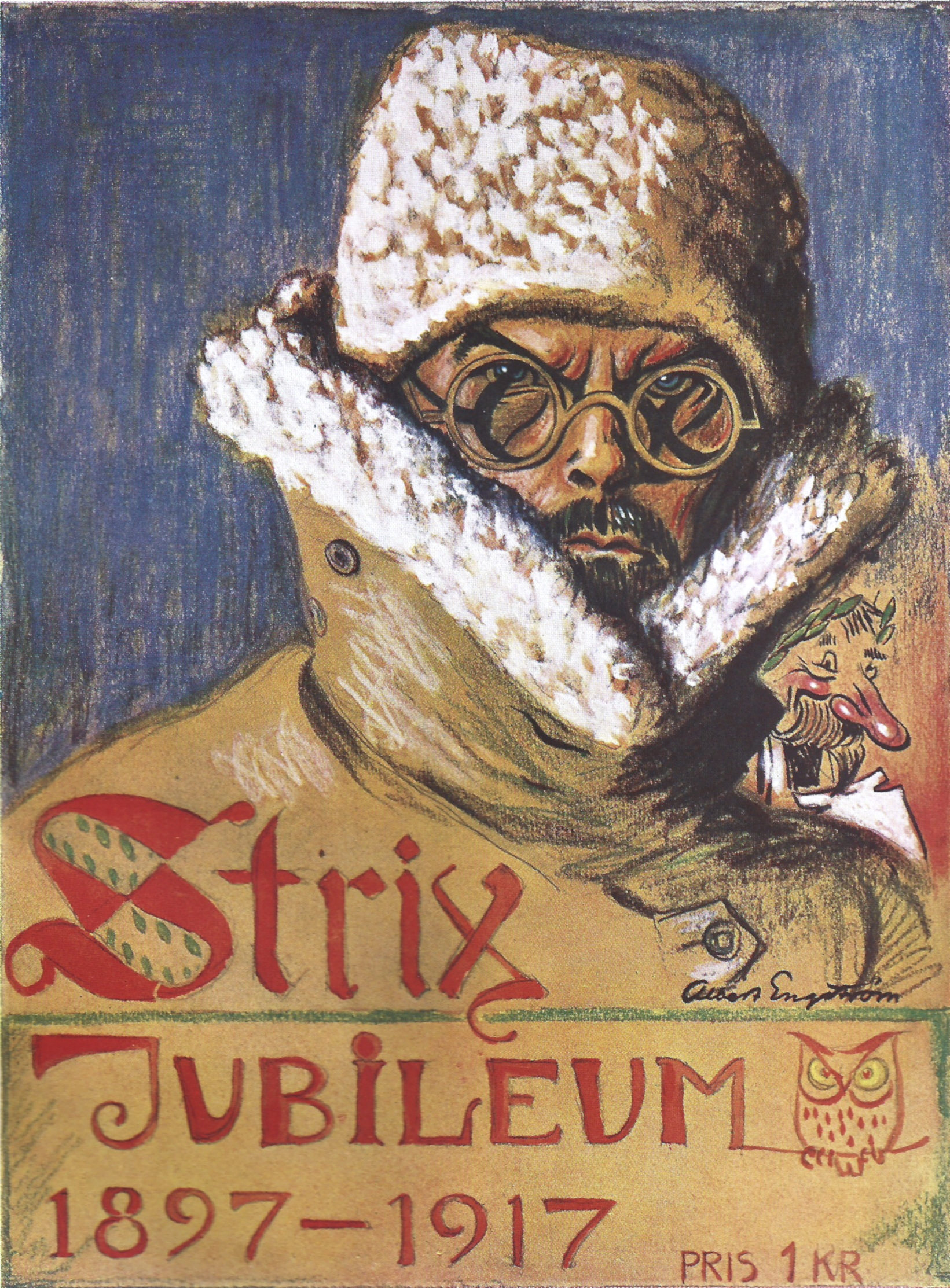 Self-portrait on the cover of Strix ("owl")